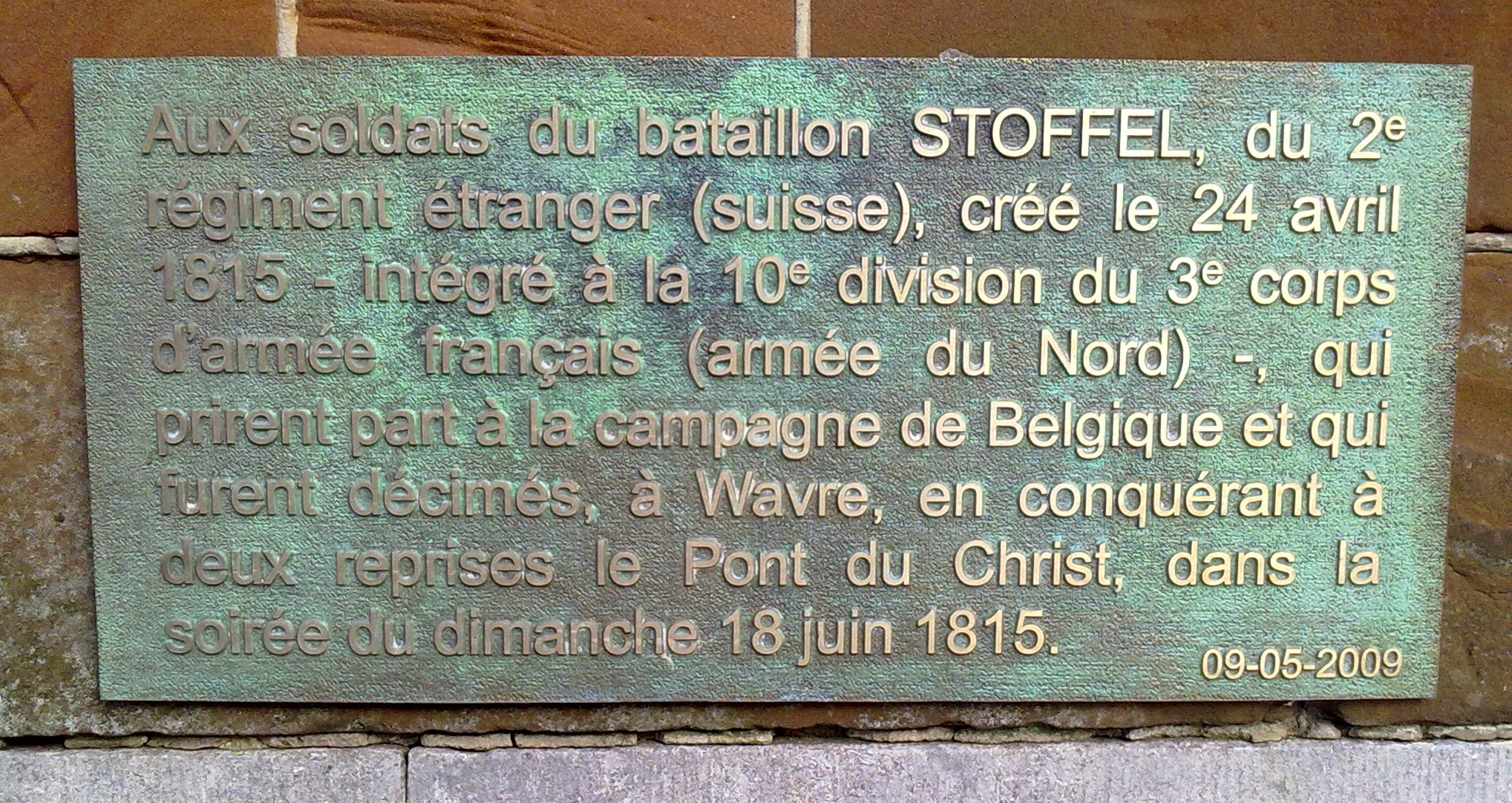 Plaque to commemorate the fighting of the Stoffel batallion (June 16th and 18th 1815) to defend a bridge in the town of Wavre (Brabant) Belgium.